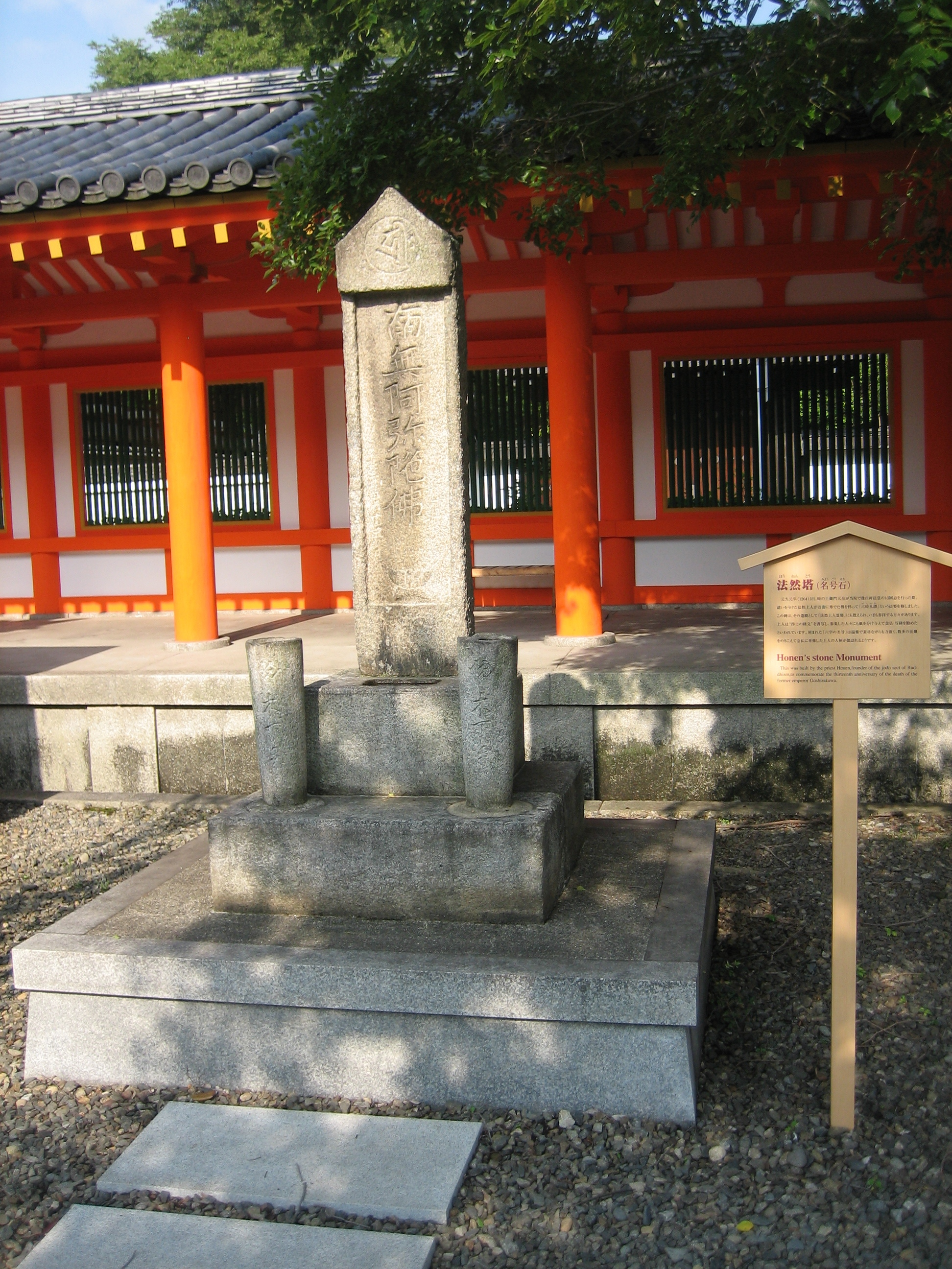 Memorial errected by Hōnen for Emperor Go-Shirakawa 13 years after his dead in front of Sanjusangen-dō temple in Kyōto.